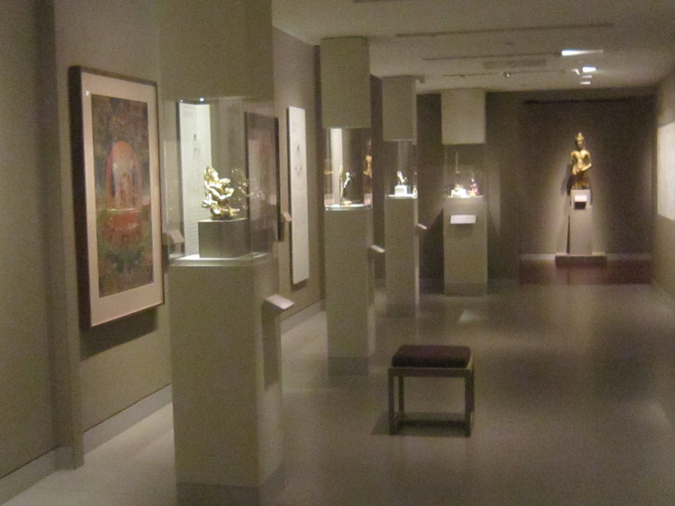 View of the second-floor gallery of the Rubin Museum of Art in New York displaying objects from the permanent collection